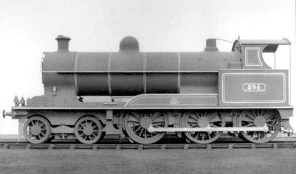 Photograph of LNWR engine No. 285